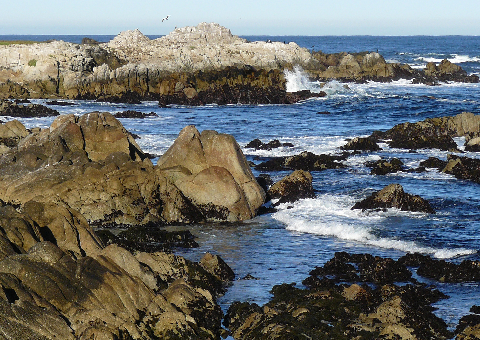 Asilomar State Beach is located on Sunset Drive in Pacific Grove, Calif. Shore birds such as Whimbrel, Black Turnstone, Surf Bird, Black-bellied Plover, Black Oystercatcher, and Sanderling can readily be seen from the walking path.